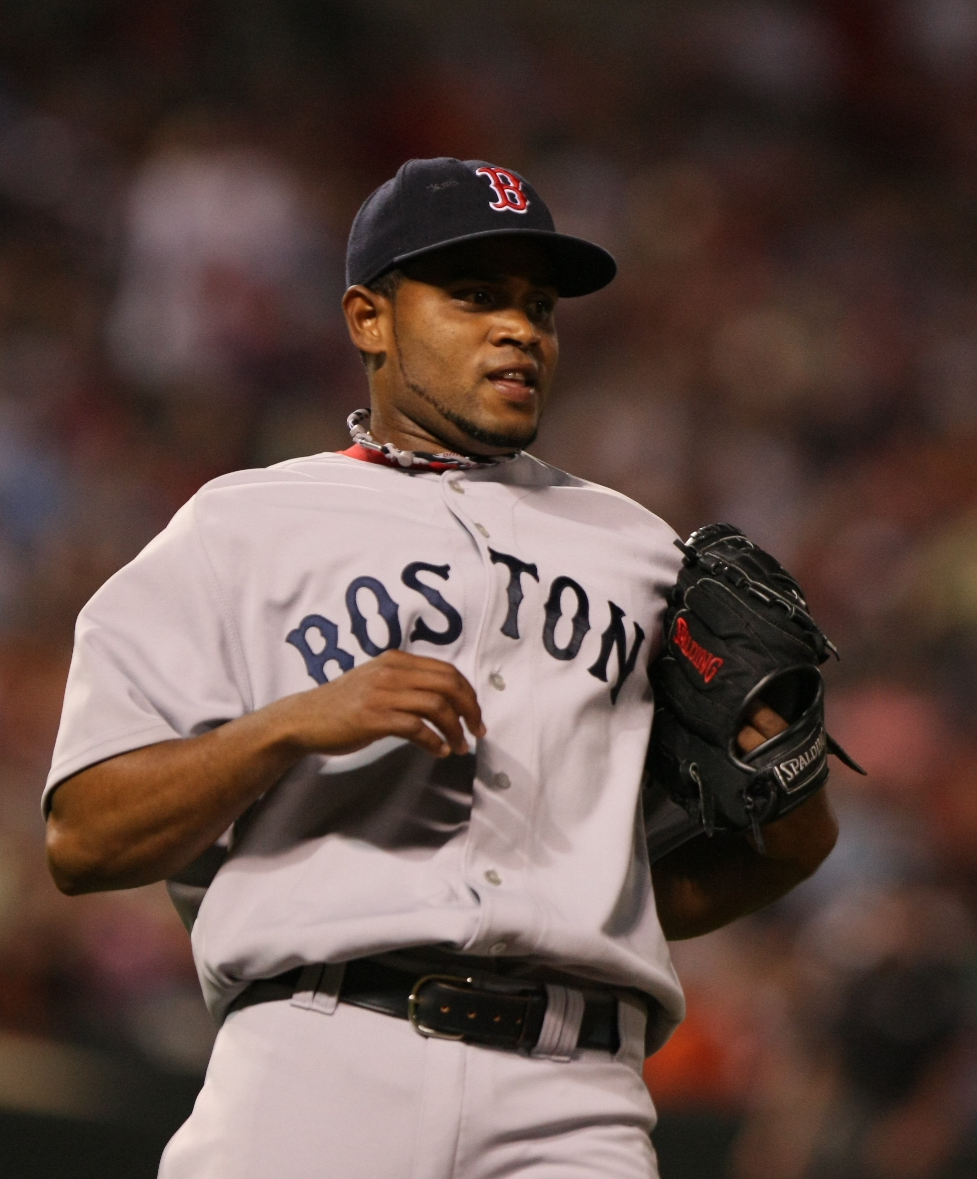 Ramón Ramírez